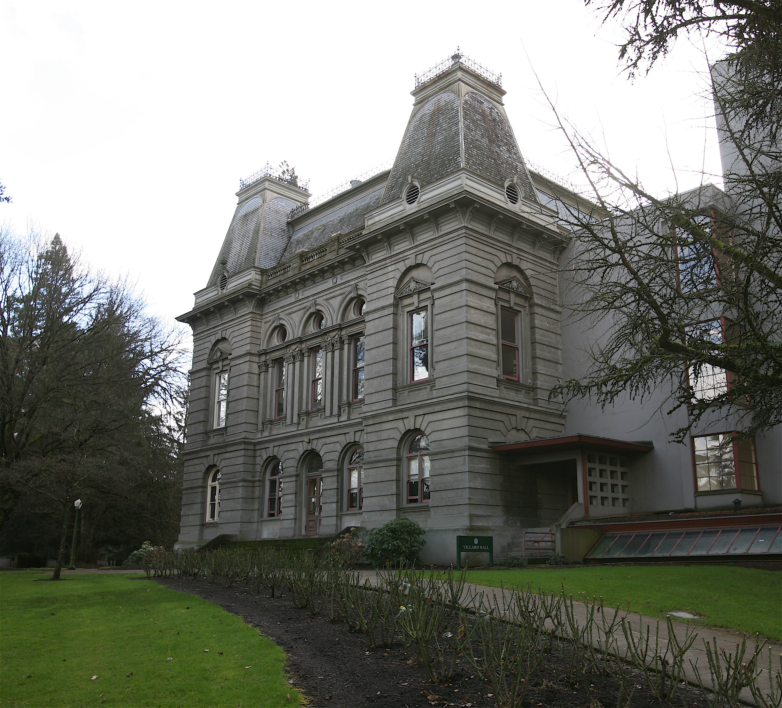 Villard Hall on the campus of the University of Oregon.